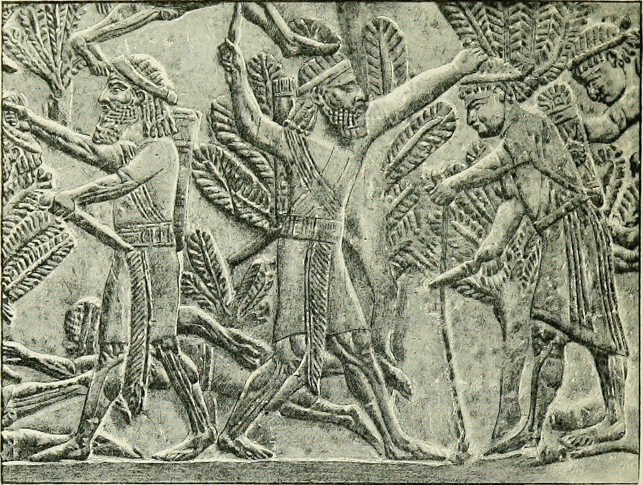 Title: History of Egypt, Chaldea, Syria, Babylonia and Assyria Year: 1903 (1900s) Authors: Maspero, G. (Gaston), 1846-1916 Sayce, A. H. (Archibald Henry), 1845-1933 McClure, M. L., d. 1918 Subjects: Civilization, Ancient History, Ancient Publisher: London : Grolier Society Text Appearing Before Image: uare footboardplaced flat on the axle of the wheels, and furnished withtriangular side-pieces on two sides only, the vehicle beingdrawn by a pair of horses. Such chariots were easier tomanage, better adapted for rapid motion, and must havebeen more convenient for a reconnaissance or for skirmisheswith infantry; but when thrown in a mass against theheavy chariotry of the peoples of the Euphrates, they werefar too slightly built to overthrow the latter, and at close ^ The site of Tulliz is unknown. Billerbeck considers, and with reason,I think, that the battle took place to the south of Susa, on the river Shavur,which would correspond to the Ulai, on the lowest spurs of the ridge of hillsbordering the alluvial plain of Susiana. 206 THE POWER OP ASSYRIA AT ITS ZENITH quarters were of necessity crushed by the superior weightof the adversary. Tiumman had not succeeded in collect-ing all his forces before the first columns of the Assyrianarmy advanced to engage his front line, but as he was Text Appearing After Image: ITUKI BREAKS HIS BOW WITH A BLOW OF HIS SWORD, AND GIVES HIMSELi UP TO THE EXECUTIONER. expecting reinforcements, he endeavoured to gain time bydespatching Ituni, one of his generals, with orders tonegotiate a truce. The Assyrian commander, suspecting aruse, would not listen to any proposals, but ordered the envoyto be decapitated on the spot: Ituni broke his bow with ablow of his sword, and stoically yielded his neck to the ^ Drawn by Boudier, from a photograph taken from the original in theBritish Museum.